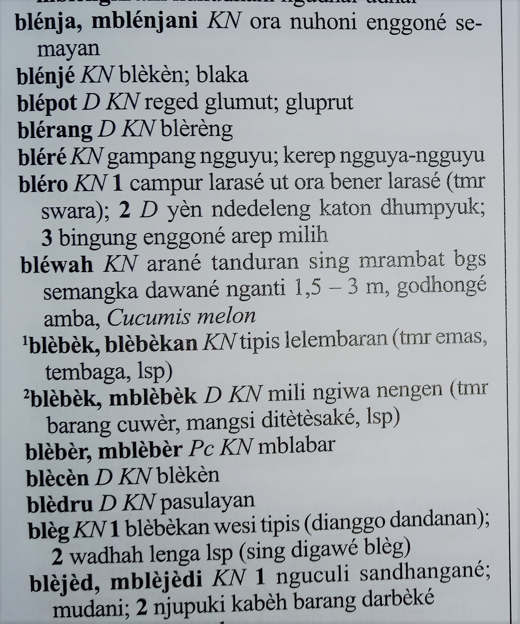 Krama-ngoko lemmas (marked with KN) in Kamus Basa Jawa (Bausastra Jawa)